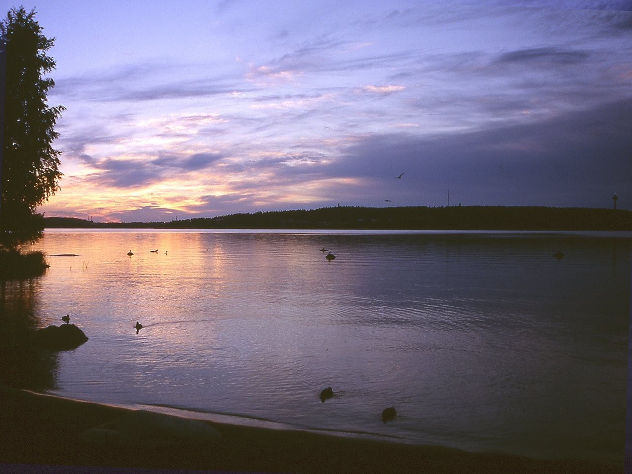 Sunset at Härmälä, Tampere. View over Pyhäjärvi Lake to Pispala Ridge (2004-07-02, 23:15).